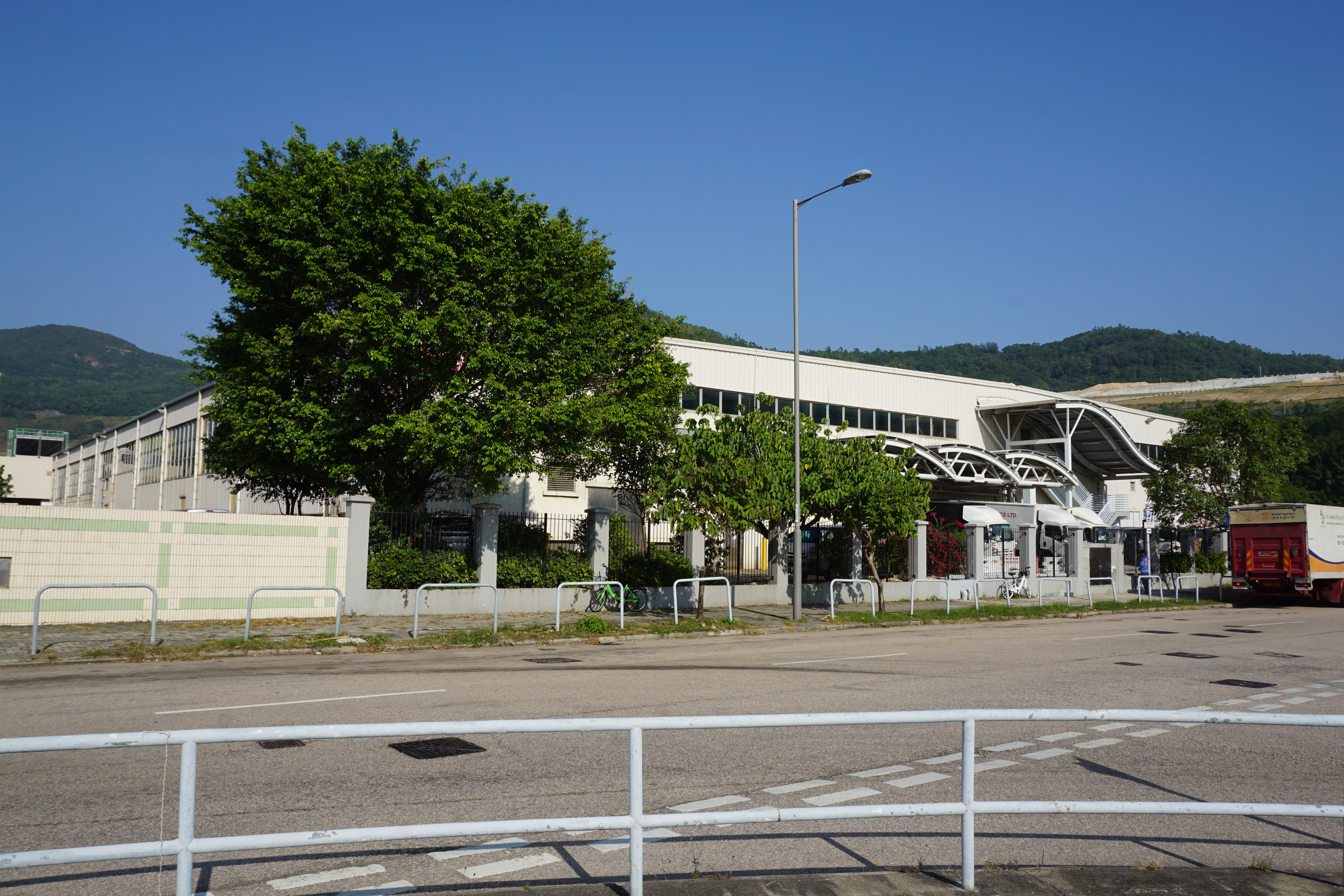 Avery Dennison in Tai Chik Sha, Hong Kong.